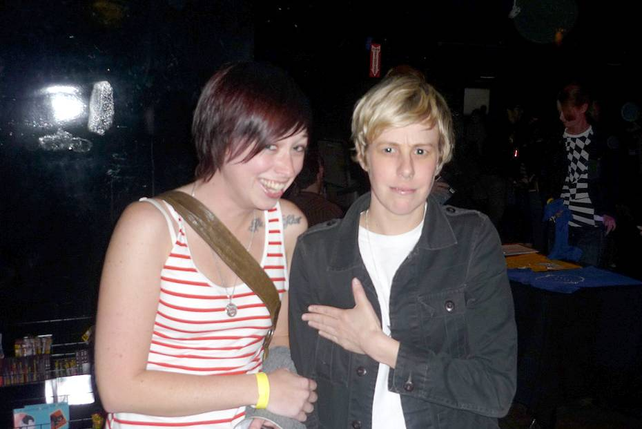 Rachael Cantu & Kate Cooper